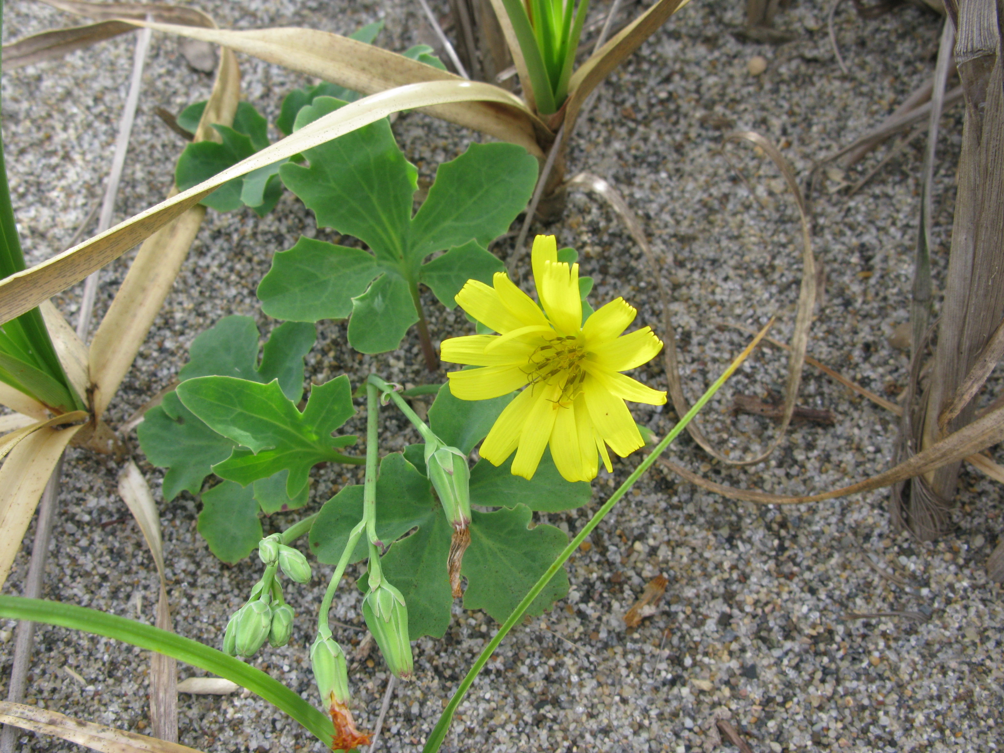 Ixeris repens, Syonai area, Yamagata pref., Japan